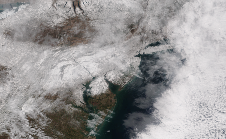 Satellite shot of the snow cover in the Northeast after a nor'easter struck the region on March 21.